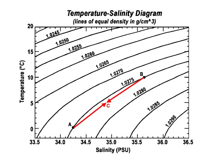 Temperature Salinity Diagram to show cabbeling